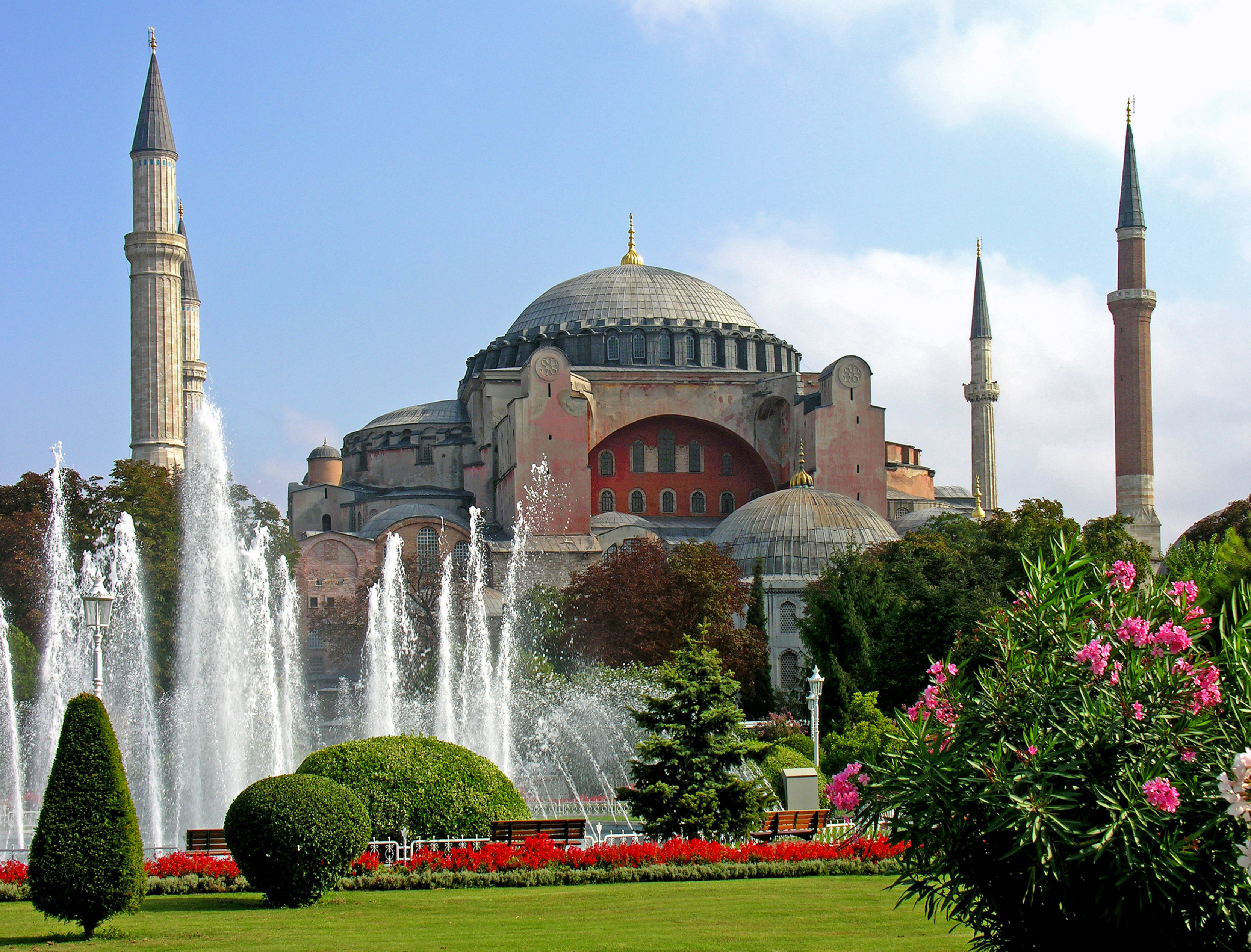 PLEASE, no multi invitations, glitters or self promotion in your comments. My photos are FREE for anyone to use, just give me credit and it would be nice if you let me know. Thanks Hagia Sophia built as the new Cathedral of Constantinople by the Emperor Justinian in 537 AD. In 1453, the Ottoman Sultan Mehmet the Conqueror converted the Great Church into his mosque. Instanbul, Turkey Today, use of the complex as a place of worship (mosque or church) is strictly prohibited. However, in 2006, it was reported that the Turkish government allowed the allocation of a small room in the museum complex to be used as a prayer room for Christian and Muslim museum staff.